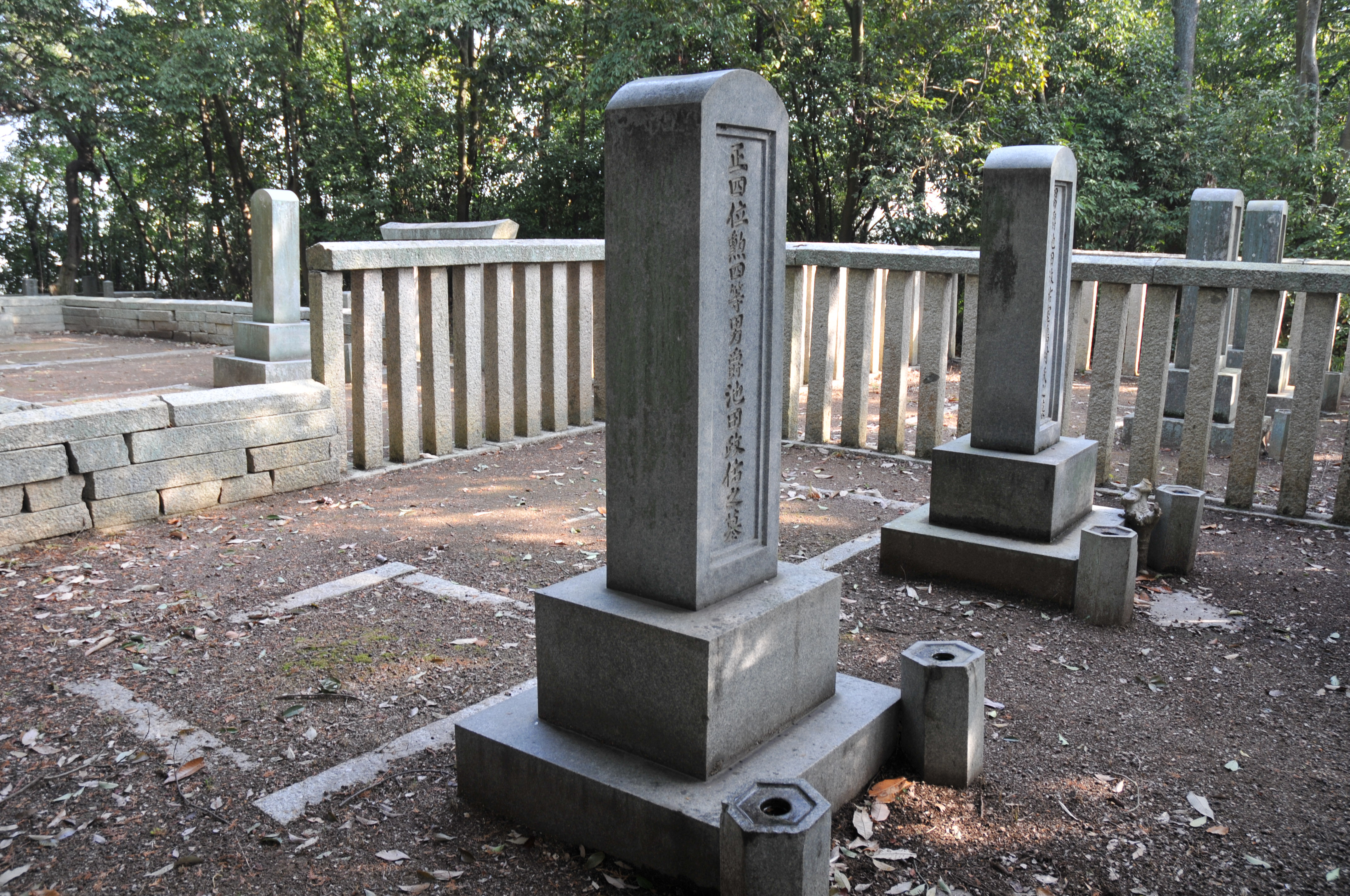 graves of Ikeda Masasuke(12th family head, this side) and his wife